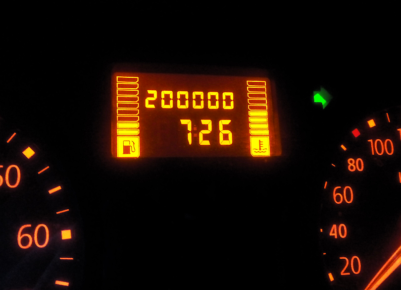 Renault Clio speedometer